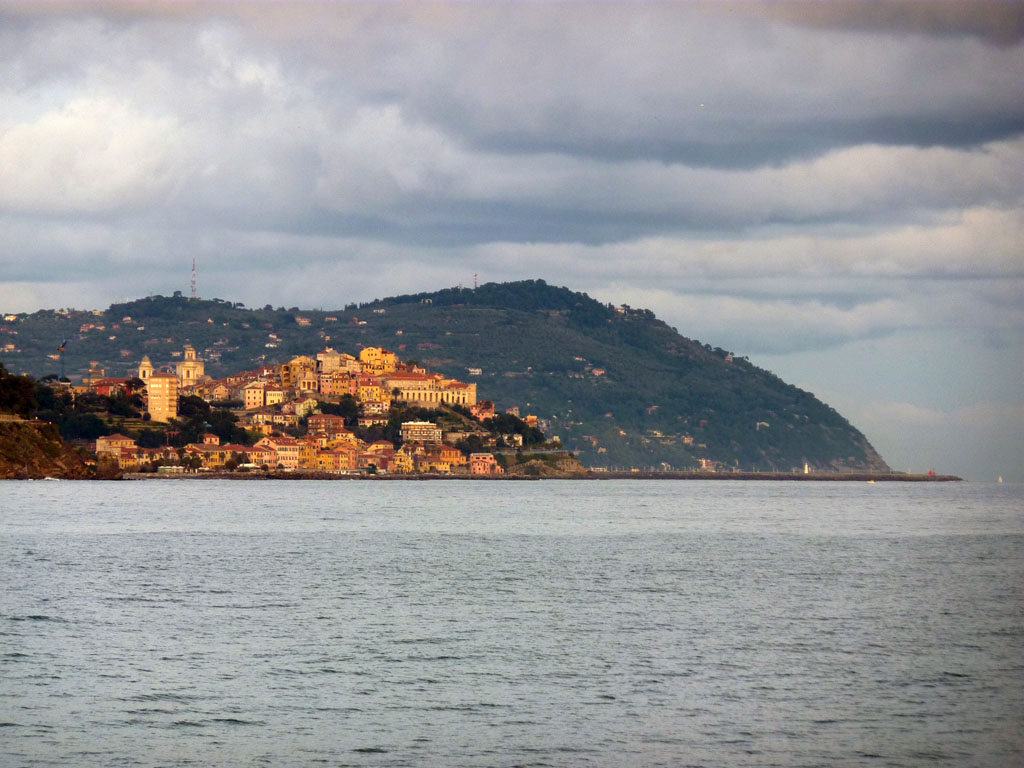 Cape of Porto Maurizio, seen from west (San Lorenzo village) (Liguria, Italy)